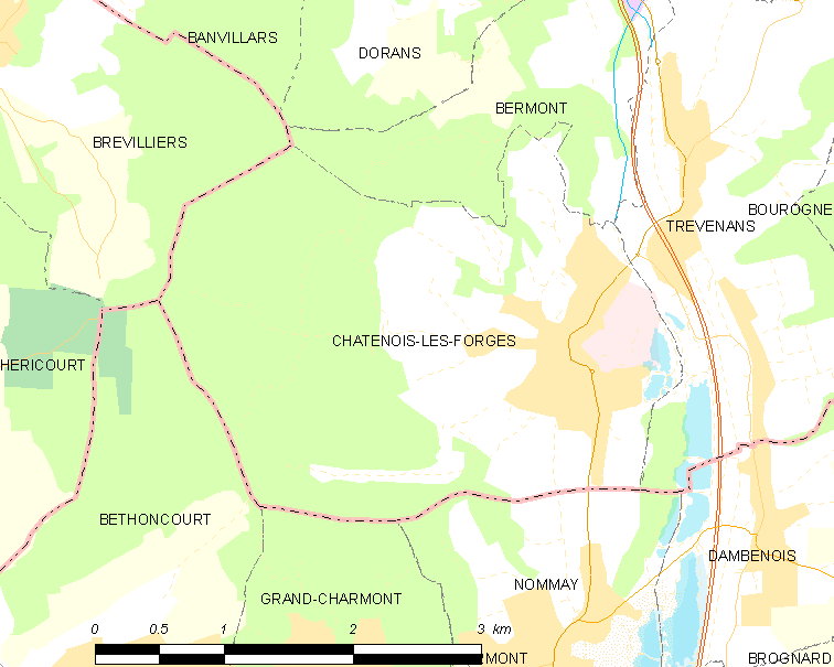 Map of French municipality Châtenois-les-Forges